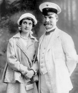 Architect Vasiliy Listovnichiy with his daughter Inna